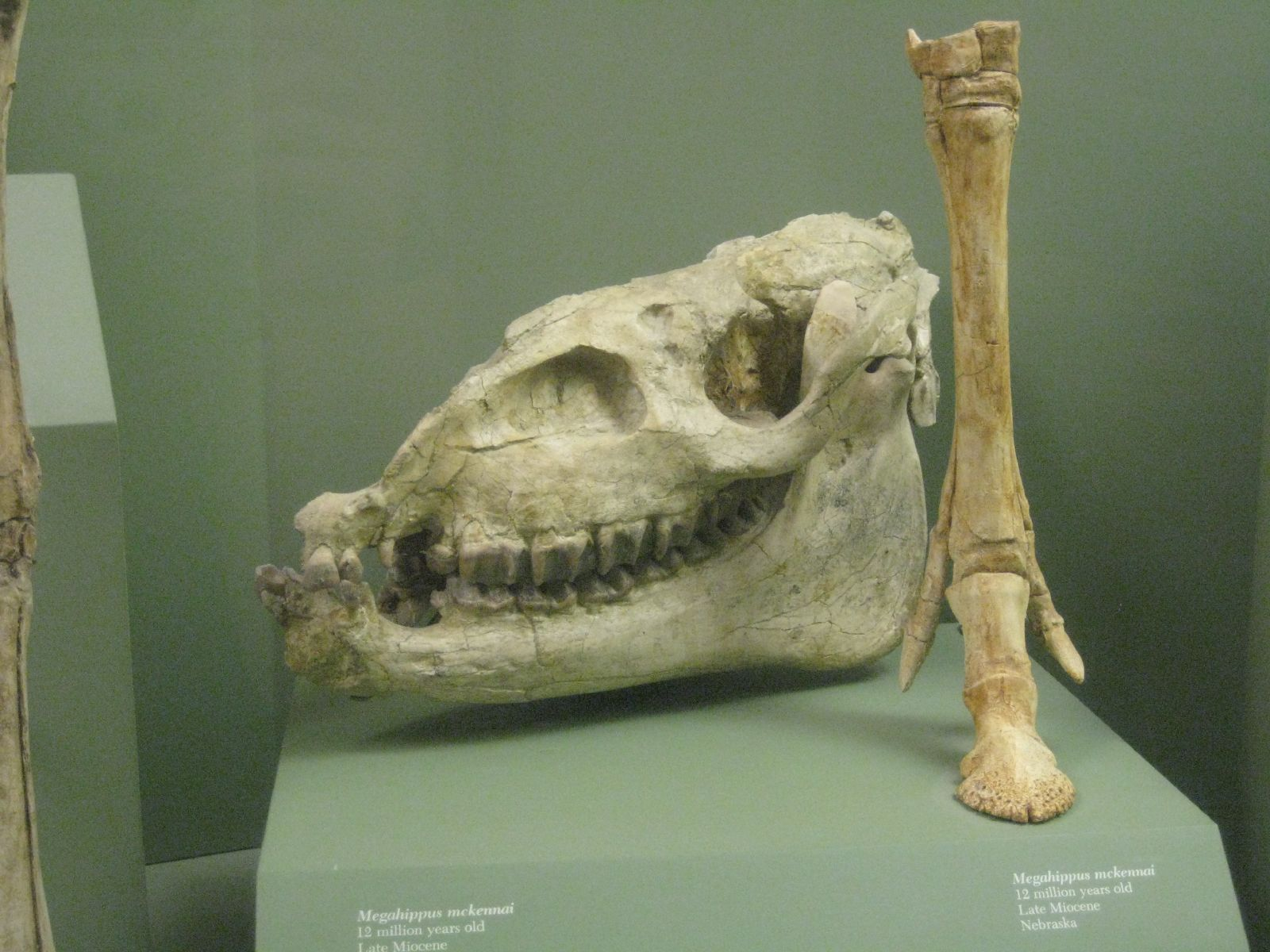 12 million years old Late Miocene